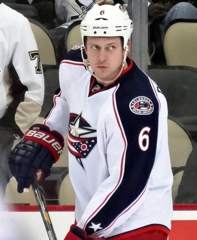 Columbus Blue Jackets defenseman Nikita Nikitin warms up before a game against the Pittsburgh Penguins, November 1, 2013, at Consol Energy Center in Pittsburgh, PA.